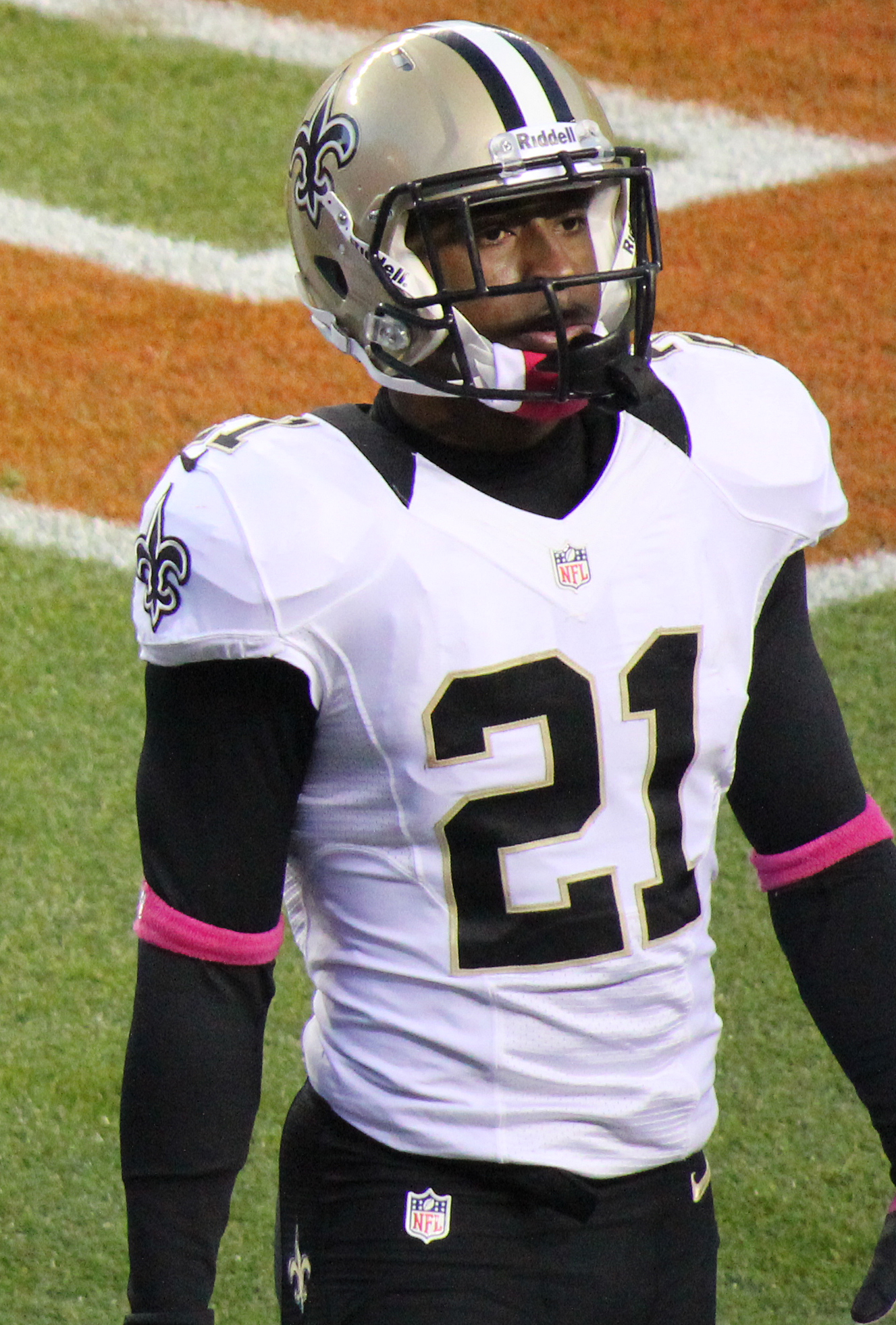 Patrick Robinson, a player on the National Football League.